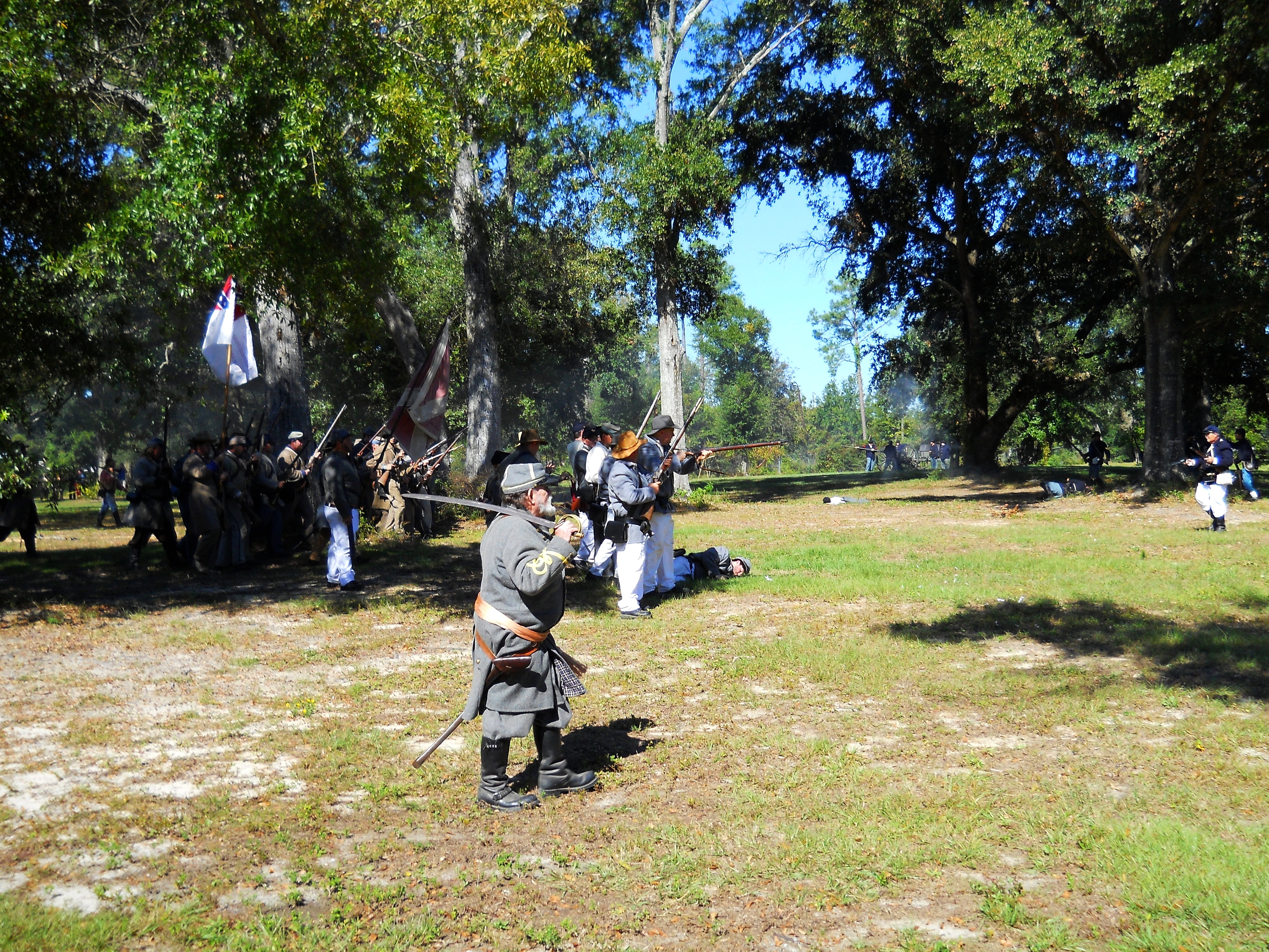 Reenactment of battle between Confederate and Union soldiers during Fall Muster at Beauvoir, Biloxi, Harrison County, Mississippi, USA.